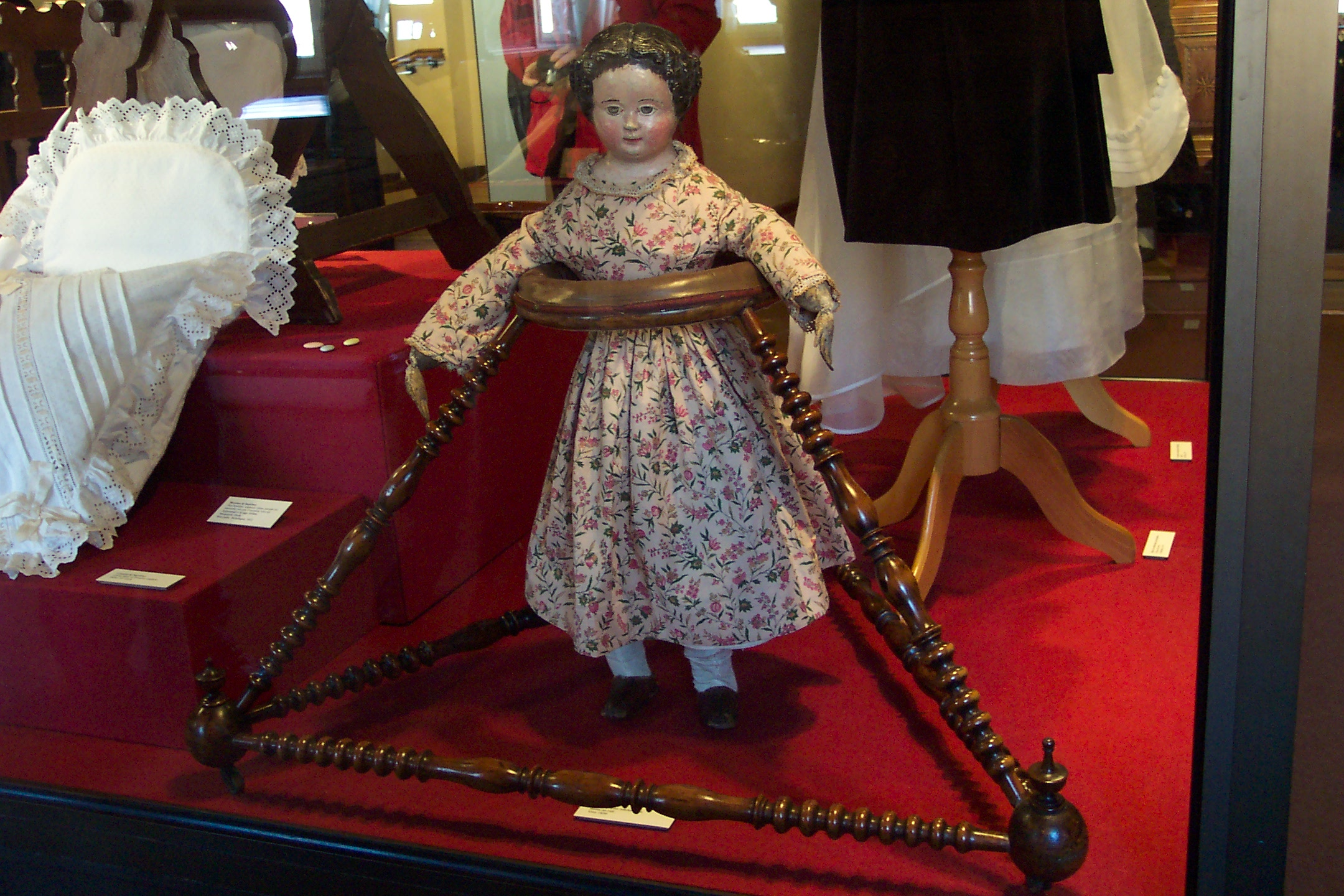 An early baby walker! Strasbourg, France